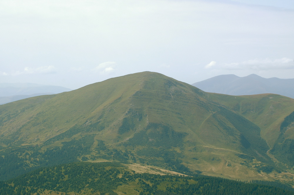 Mountain Petros (2020 m), one of the highest peaks of the Chornohora massif (panoramic view from Hoverla)